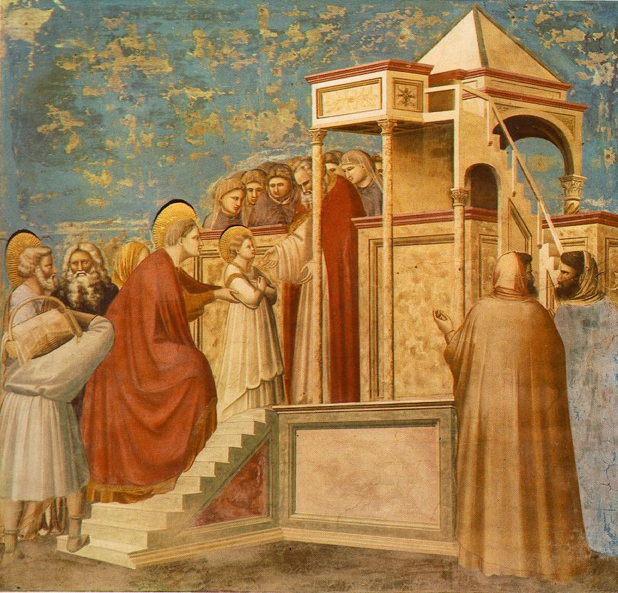 Life of the Virgin